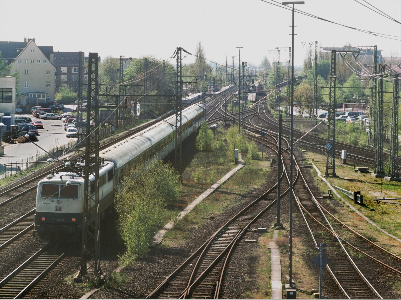 Elmshorn (Schleswig-Holstein, Germany), railway-area, photo(uploaded): 2008, This photo was taken in 1999